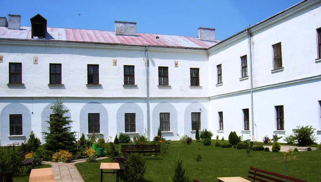 Former Zamość Academy - courtyard